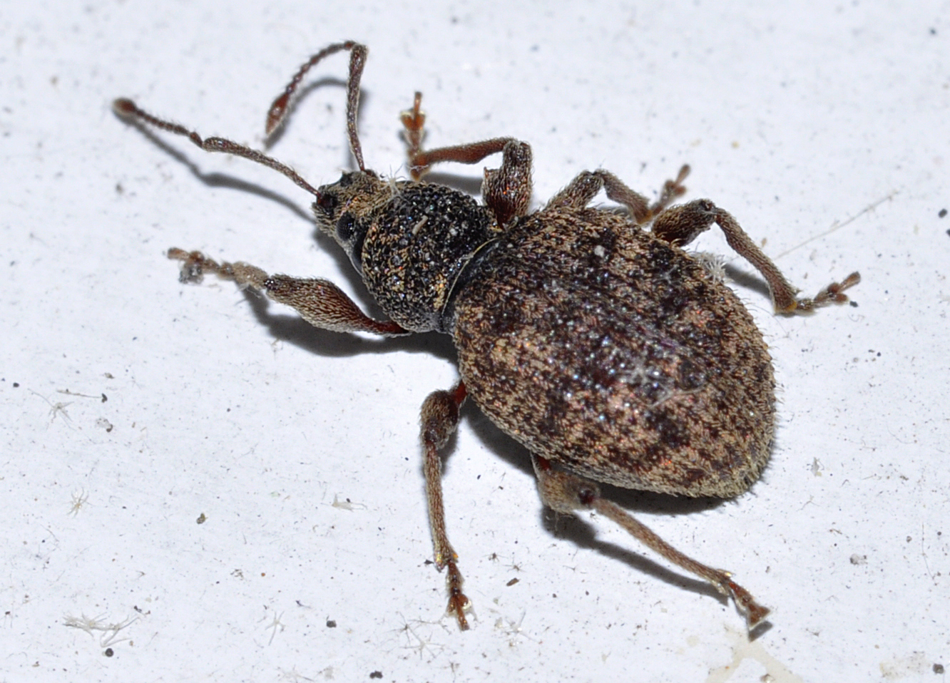 Otiorhynchus crataegi Germar, 1824. Germany: Niedersachsen, Göttingen.